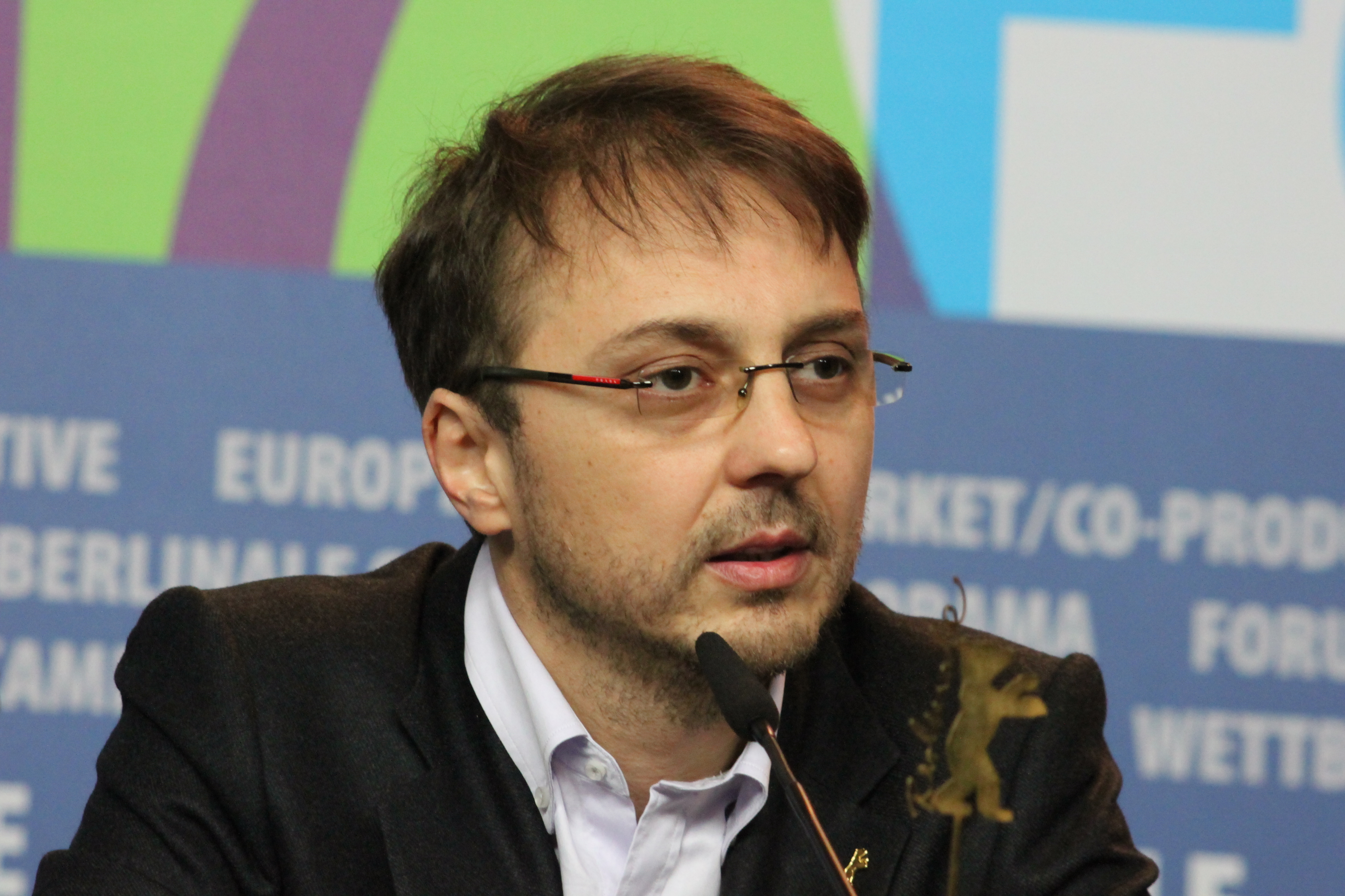 Romanian film director Calin Peter Netzer at the 63rd Berlinale, Berlin, Germany in February 2013